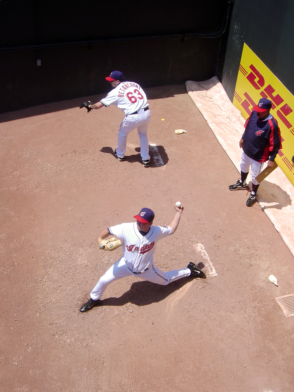 Aaron Fultz (foreground, pitching) and Rafael Betancourt warming up in the Tribe Bullpen. This was during the June 7, 2007 game, Indians vs. Royals. The Indians defeated the Royals, 8-3. Betancourt came in and pitched one solid inning, facing 3 batters and striking out one. * #DSC06145